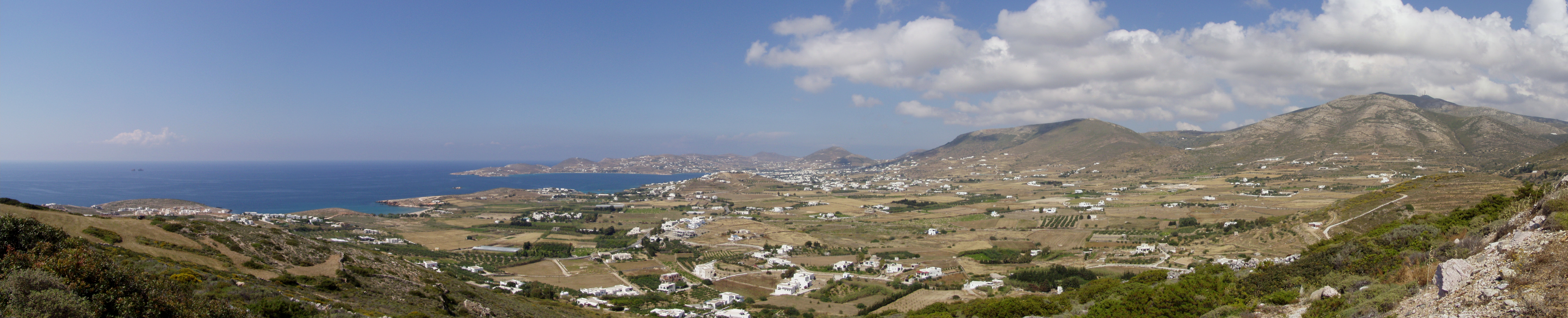 Panoramic view over the bay of Parikia, Paros, Cyclades, Greece.